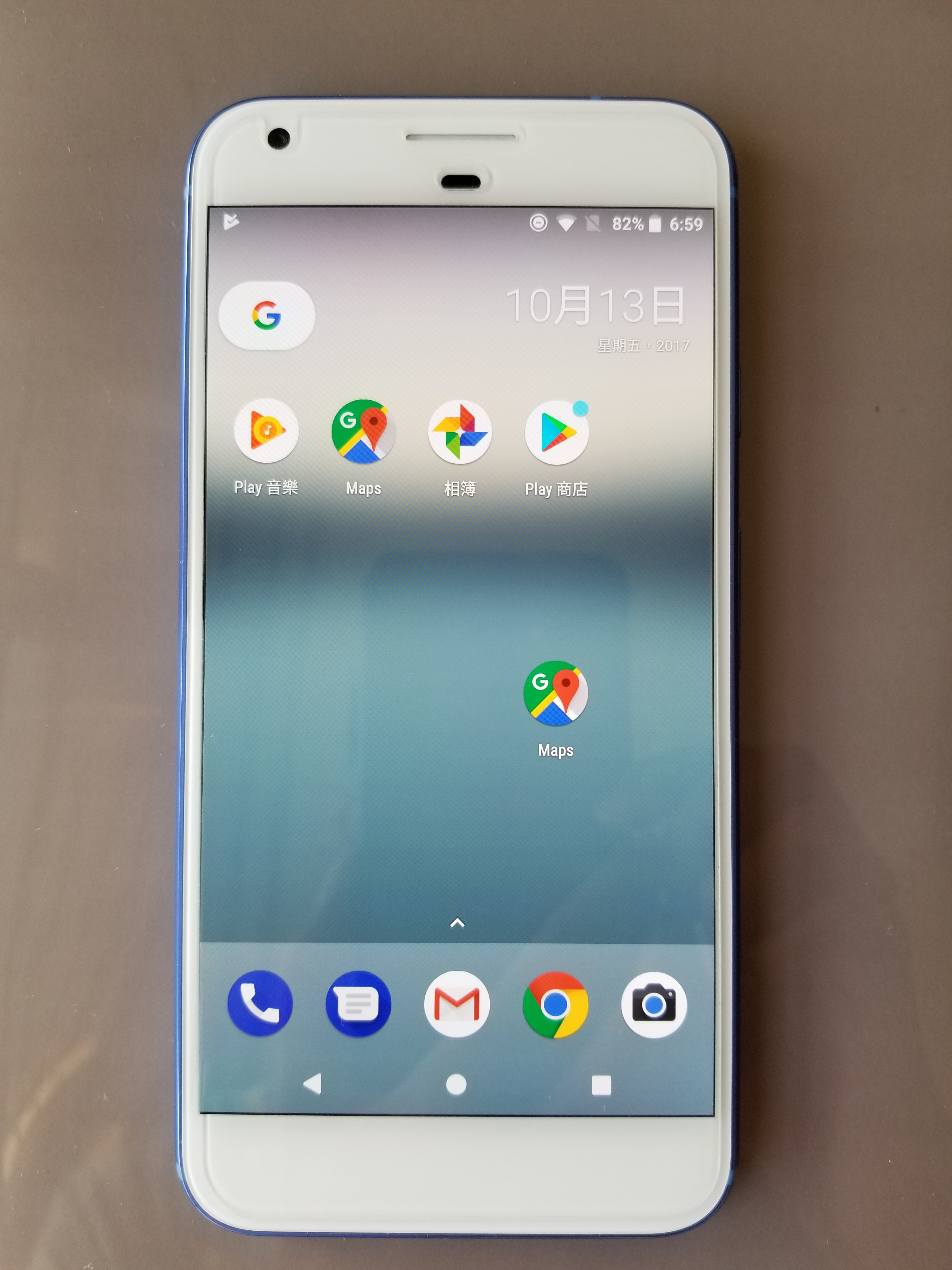 Google Pixel XL Really Blue